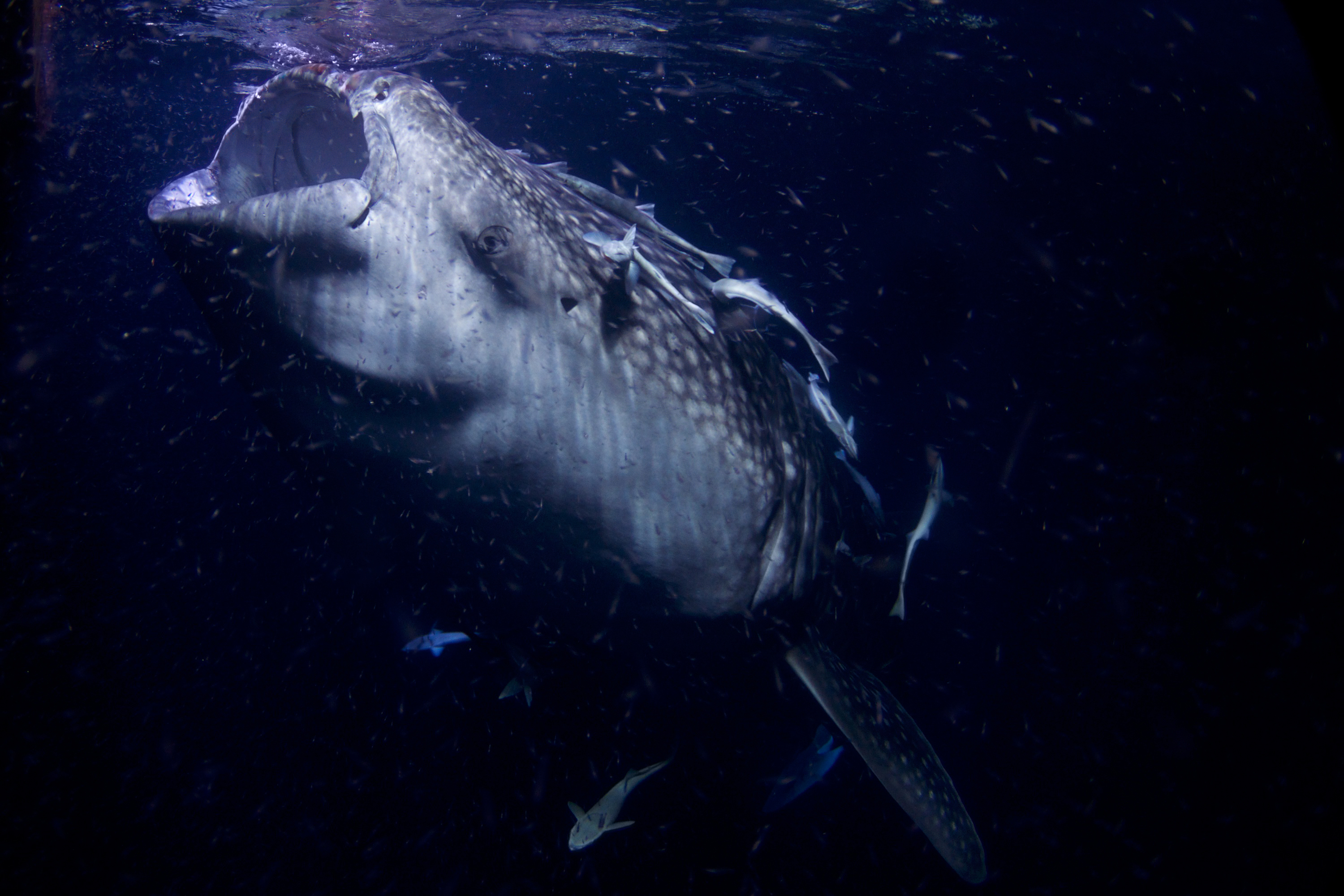 Whale Shark (Rhincodon typus). Face portrait of an 8-meter individual filter-feeding plankton at night. His eye is clearly visible. His upper lip shows recent scars – whale sharks steal food from fishermen nets and the fishermen hit them in the mouth to try to discourage them. Thaa Atoll, Maldives